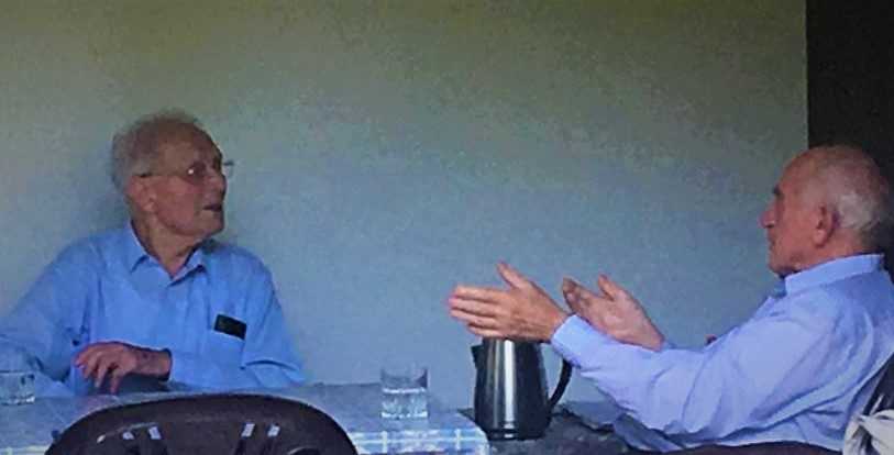 Scheler, Werner (left) and Hofmann, Ulrich_(in Prieros 21st of July 2018)